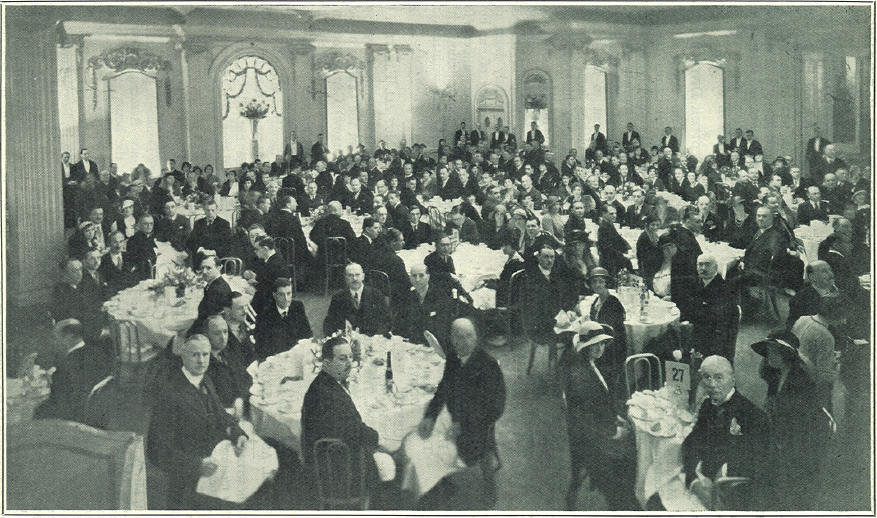 The Annual Luncheon held by the "Hotels and Restaurants Association of Great Britain" in 1932 at Grosvenor House Hotel, London